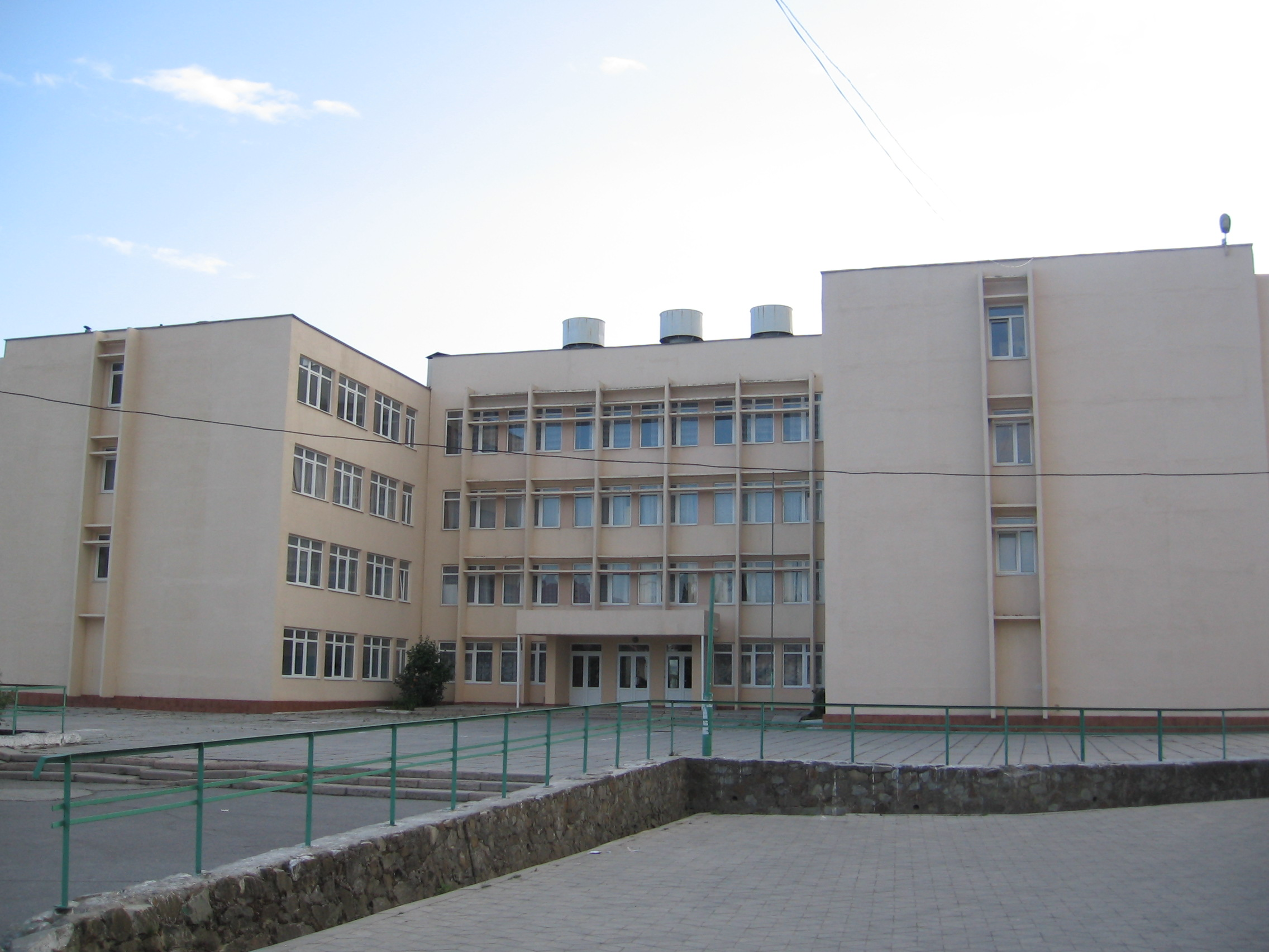 Malyy Mayak school in the village. Crimea.